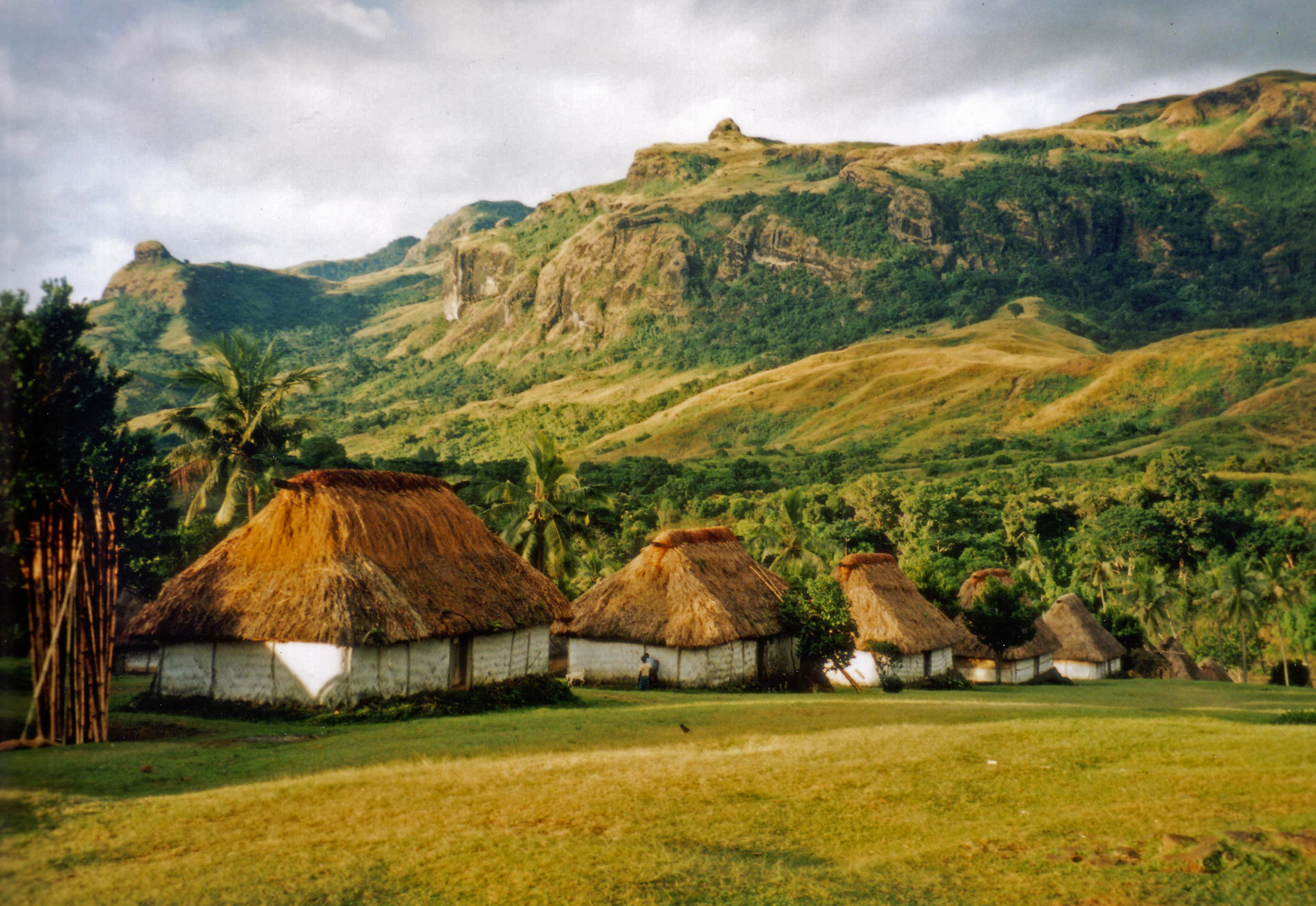 Taken by myself, User:Merbabu in Fijian village of Navala in the Nausori Highlands in mid 2000.